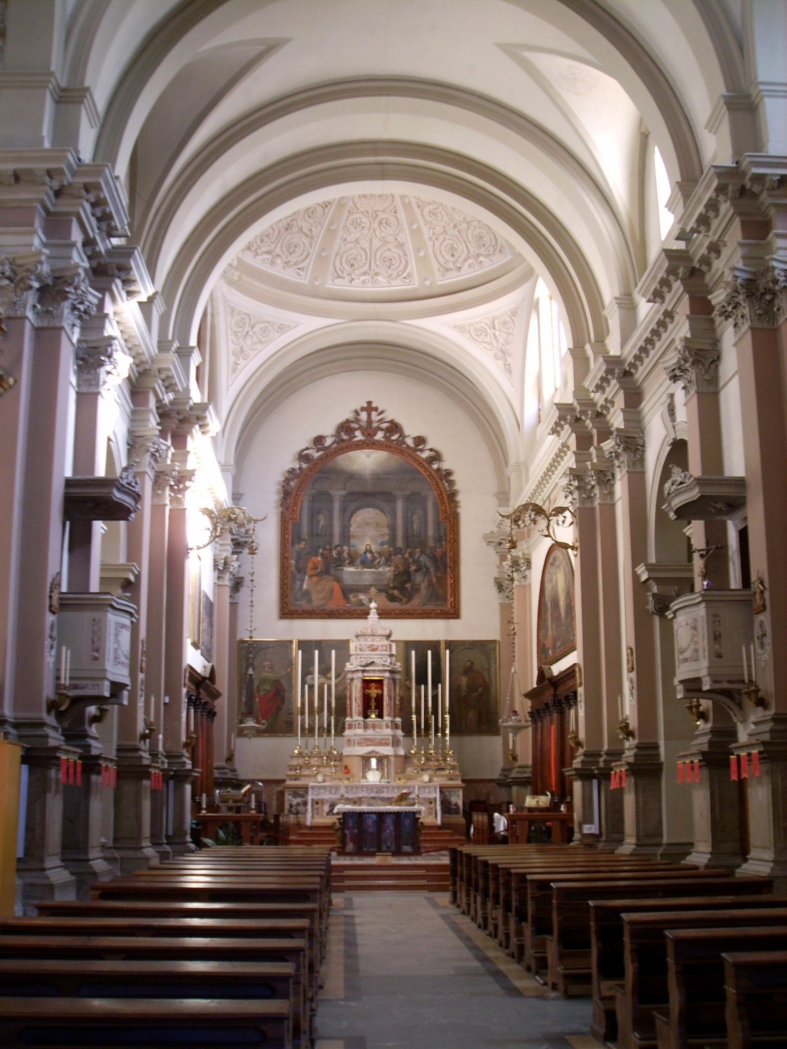 Arcidiaconale's church of Nativity of Maria,Pieve di Cadore,Belluno,Italy